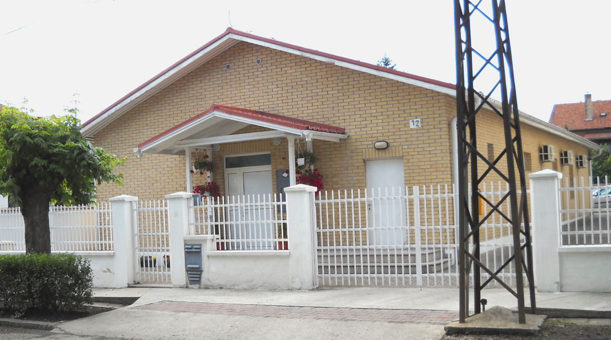 Jehovah's Witnesses prayer hall in Novi Sad. Biblical teachings are performed in Serbian language.